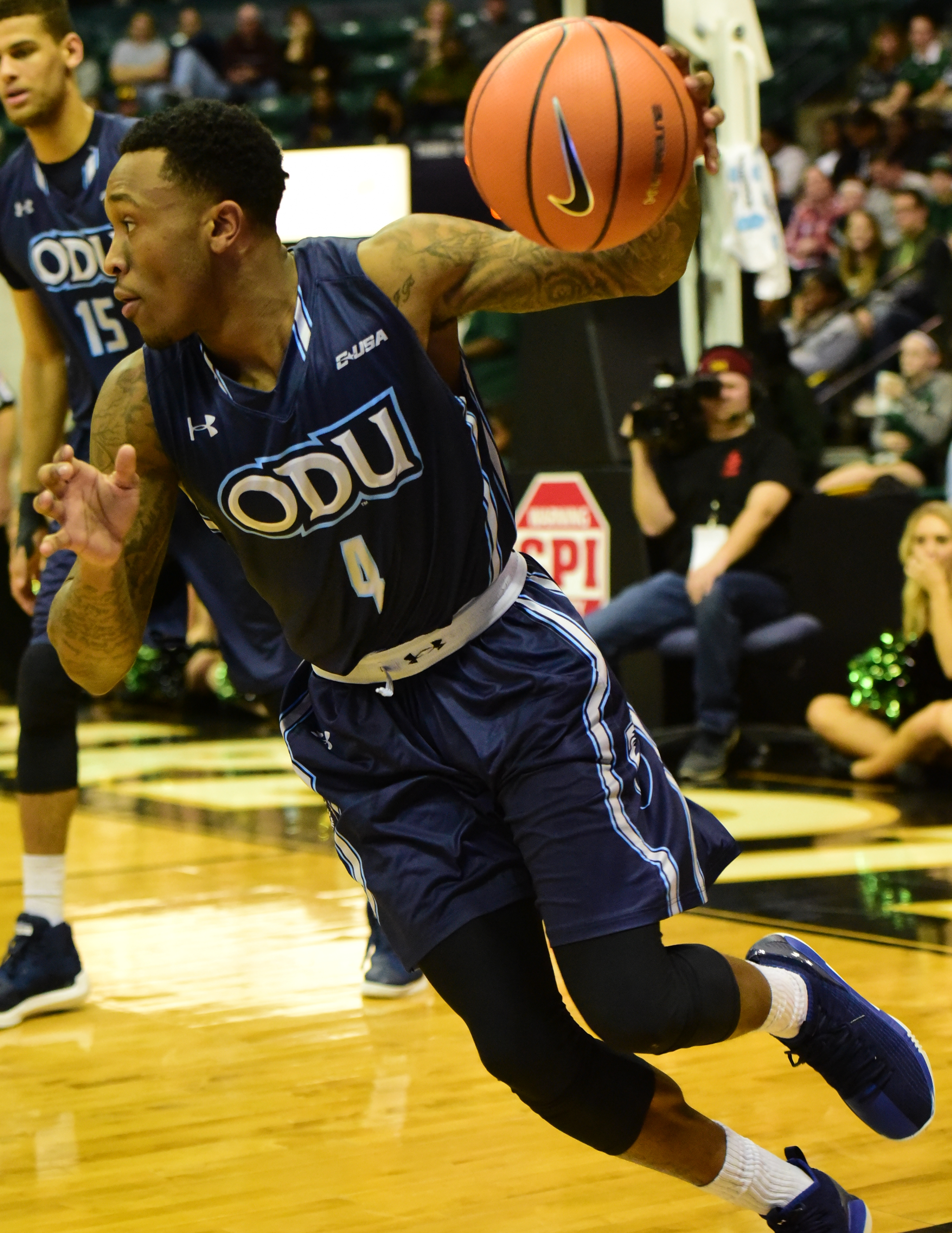 MBasketball-vs-ODU, 1/27, Chris Crews, DSC_0570